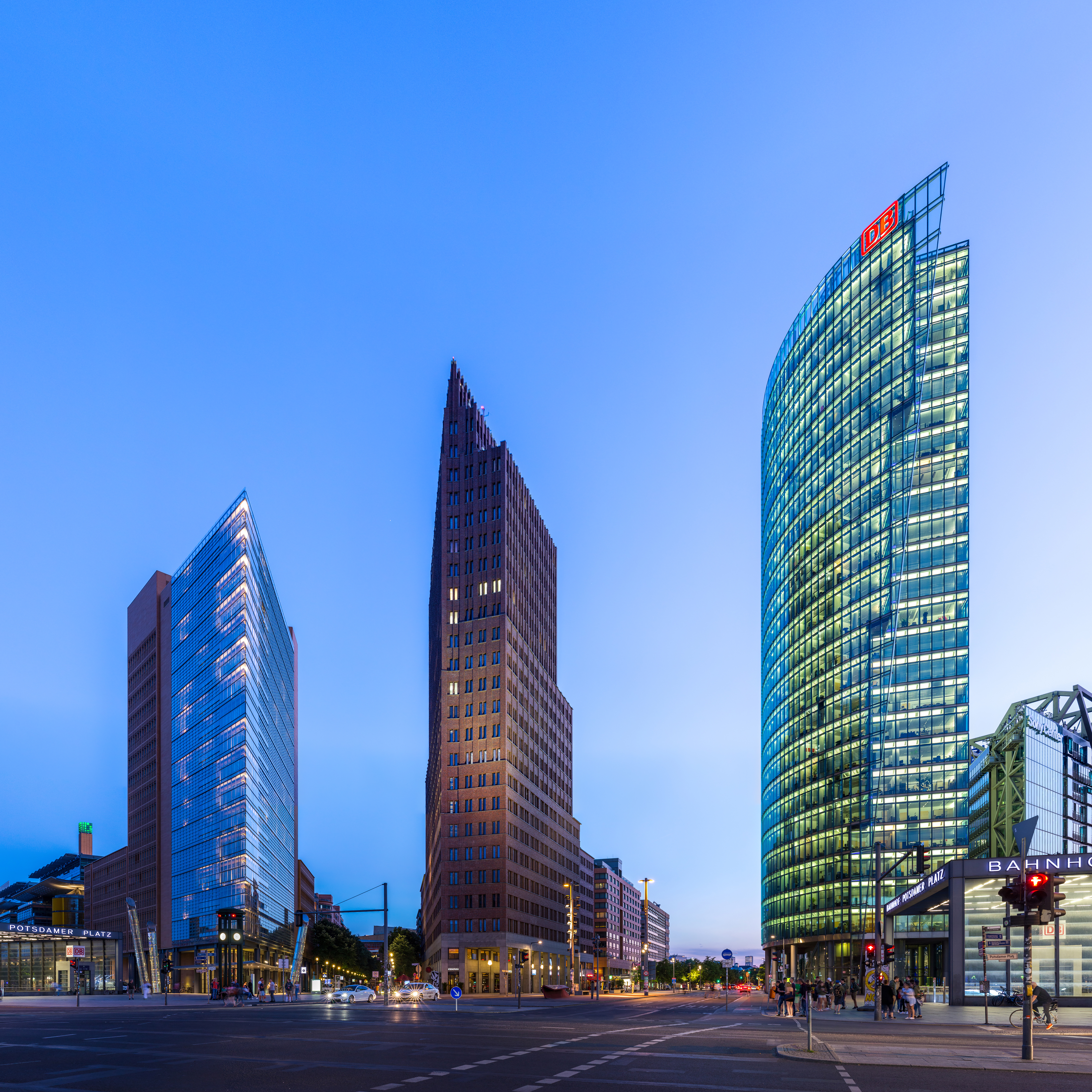 Skyscapers at Potsdamer Platz, Berlin at the beginning of the blue hour. Buildings and their architects from left to right: Atrium-Tower (Renzo Piano), Kollhoff-Tower (Hans Kollhoff), BahnTower (Helmut Jahn).